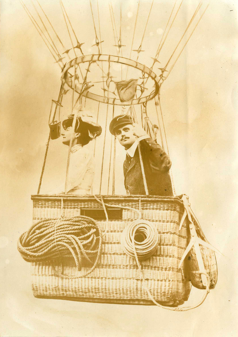 "Photograph of the late C.S. Rolls and Hon. Mrs. Assheton Harbord in basket of balloon", by Horace Hall.Though the badge is indistinct this balloon may be his 'Midget'.Mrs. Assheton Harbord owned her own balloon (Nebia) and was a dedicated aeronaut, crossing the Channel a number of times.